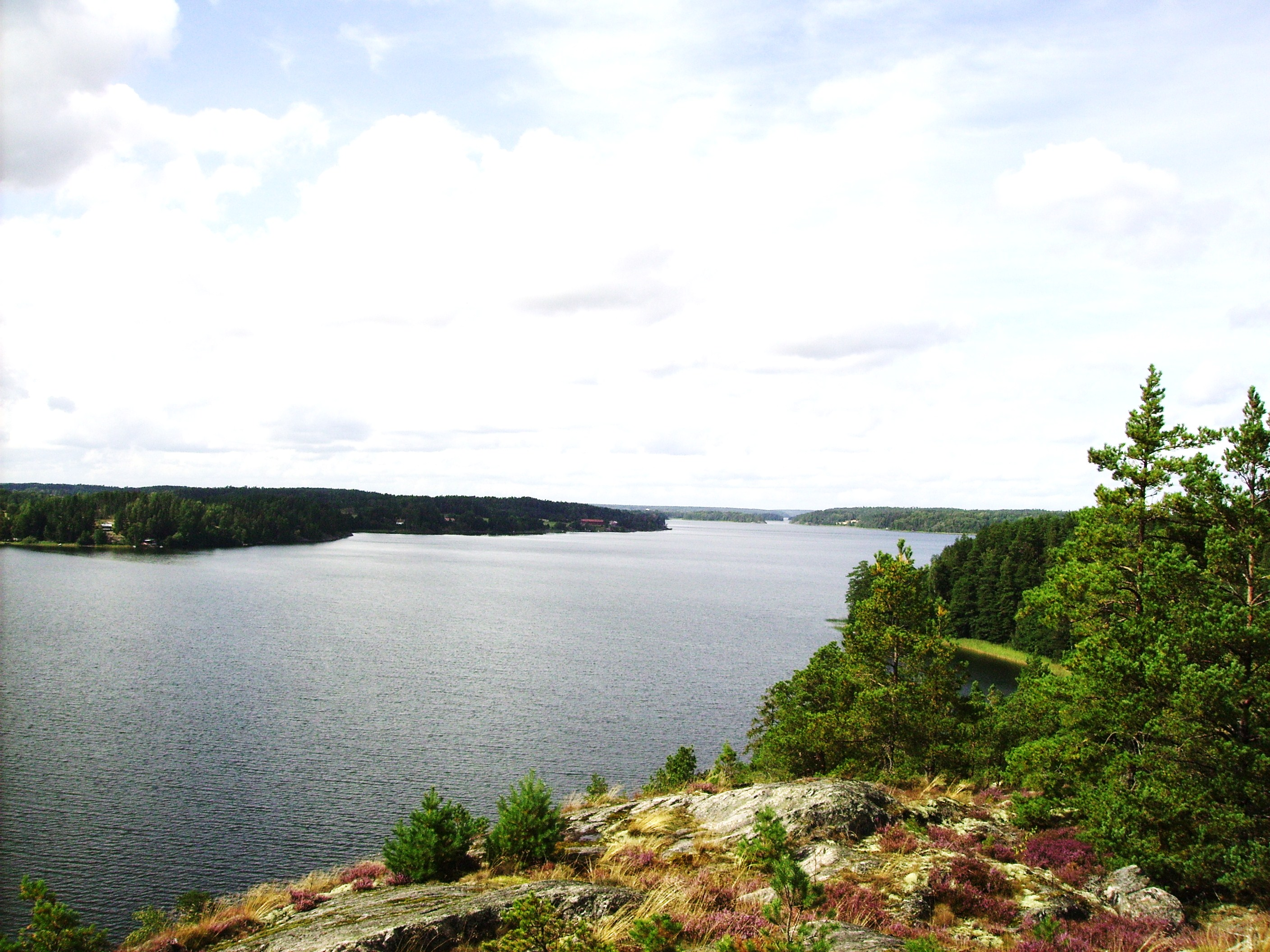 Picture of lake Klämmingen in Gnesta, Södermanland